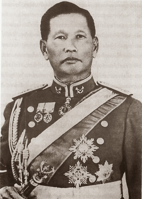 Field Marshal Sarit Dhanarajata